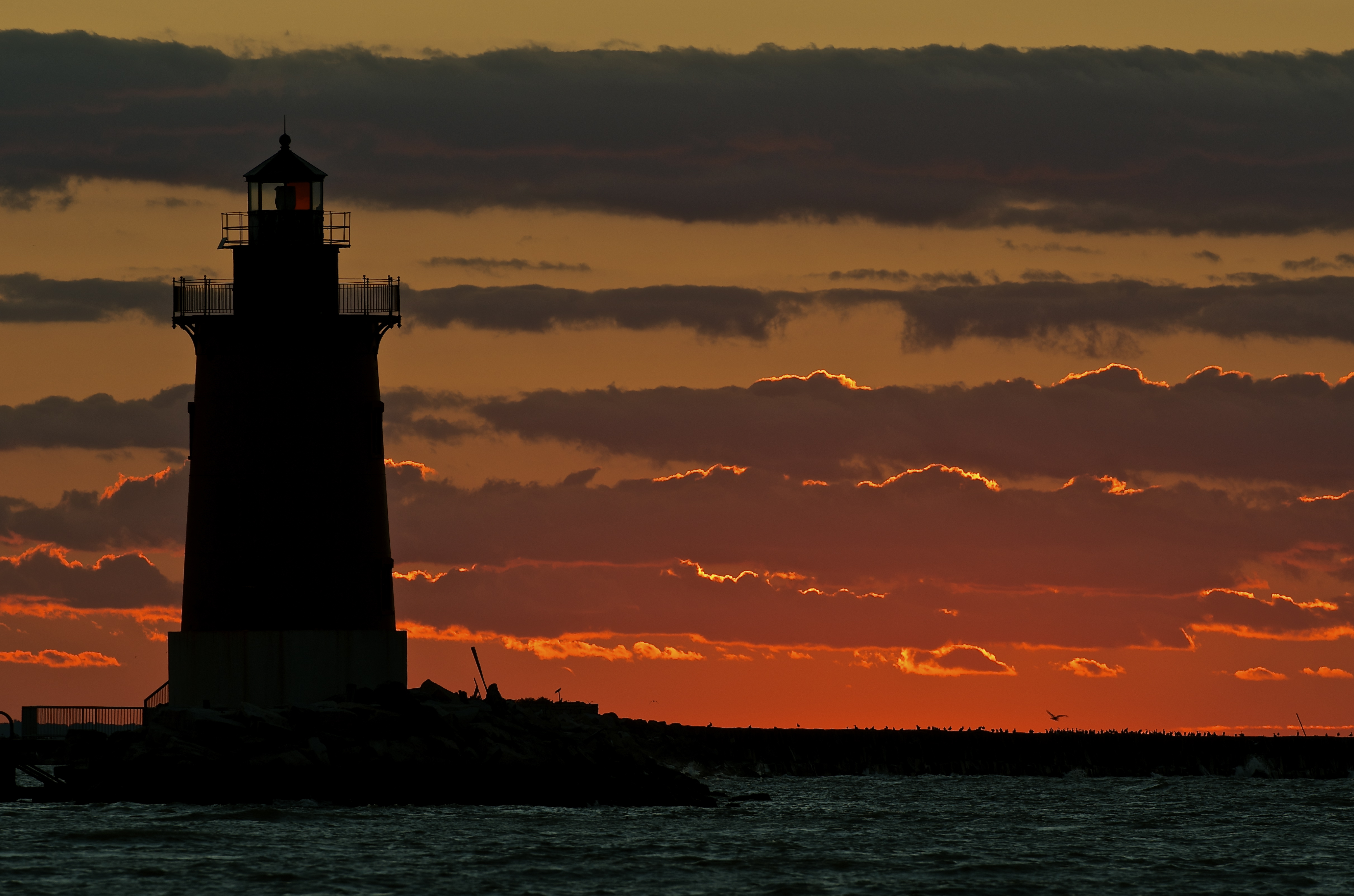 National Harbor of Refuge and Delaware Breakwater Harbor Historic District, Mouth of Delaware Bay at Cape Henlopen Lewes